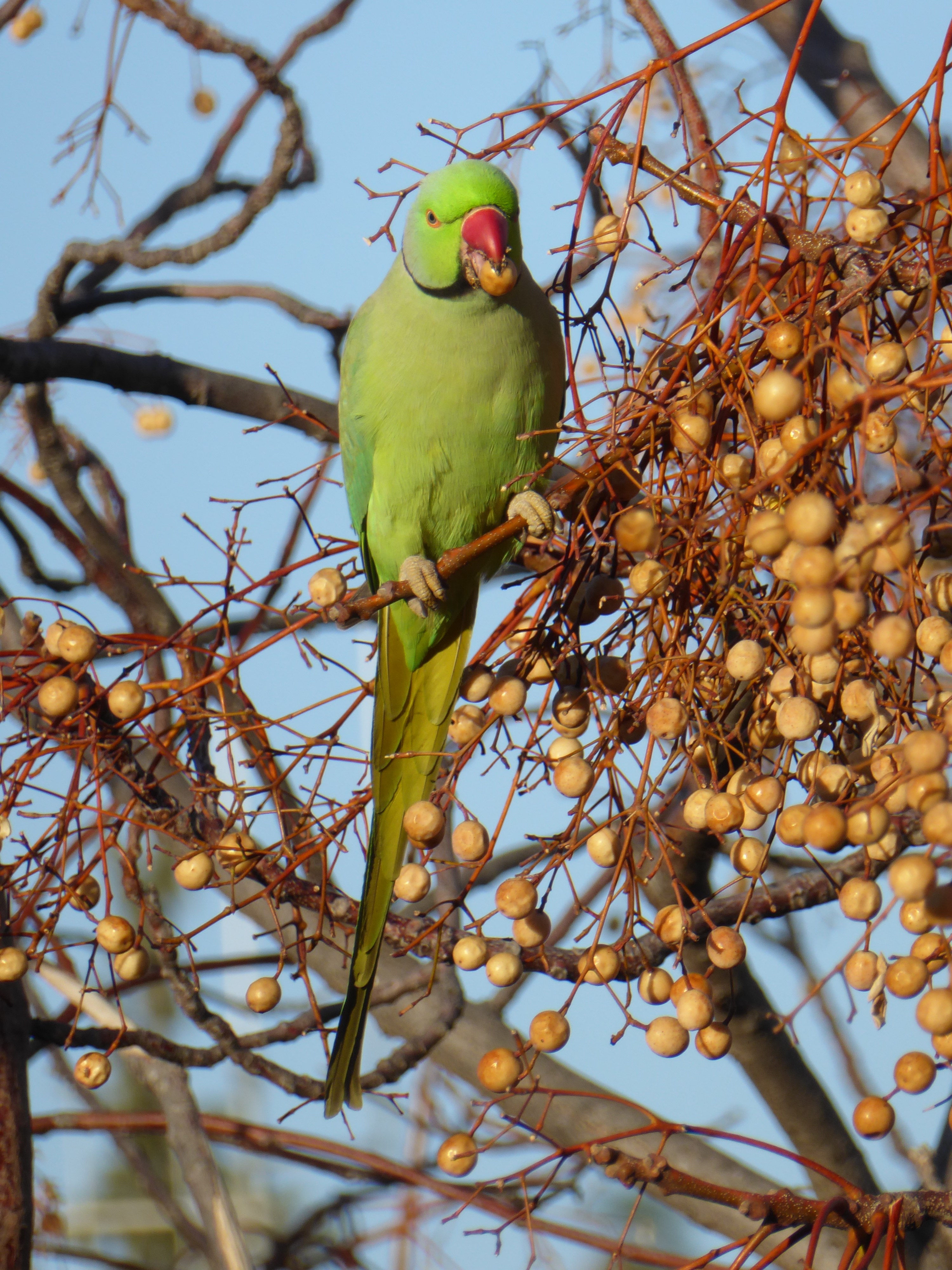 Animals of Israel